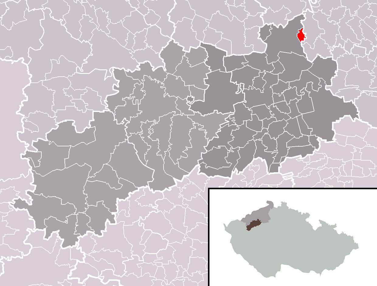 Location of Želkovice municipality within Louny District and administrative area of Louny as a Municipality with Extended Competence.